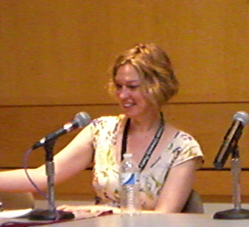 Panel of "Poets Who Write Other Genres" at the 2012 West Chester University Poetry Conference. From left to right: Marly Youmans, Jane Satterfield, Ned Balbo, and Jill Bialosky.